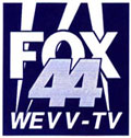 Old station logo of Fox 44 WEVV (Evansville, Indiana).